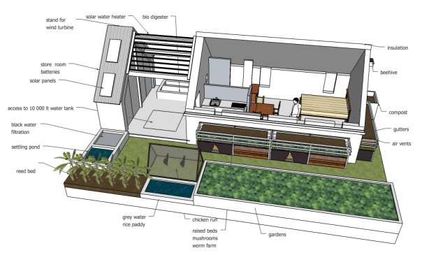 Design for a sustainable living space.